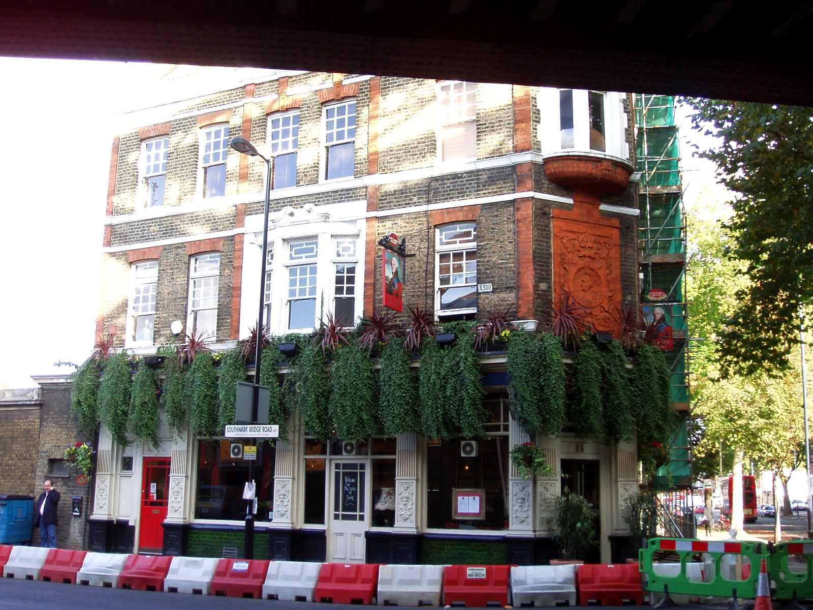 Pub at an intersection of some railway lines, near Southwark Bridge Rd. Address: 47-48 Borough Road. Former Name(s): The Goose and Firkin. Owner: Shepherd Neame (website); Firkin Pub Co (former); Truman Hanbury Buxton (former). Links: Pubs Galore Beer in the Evening Dead Pubs (history)